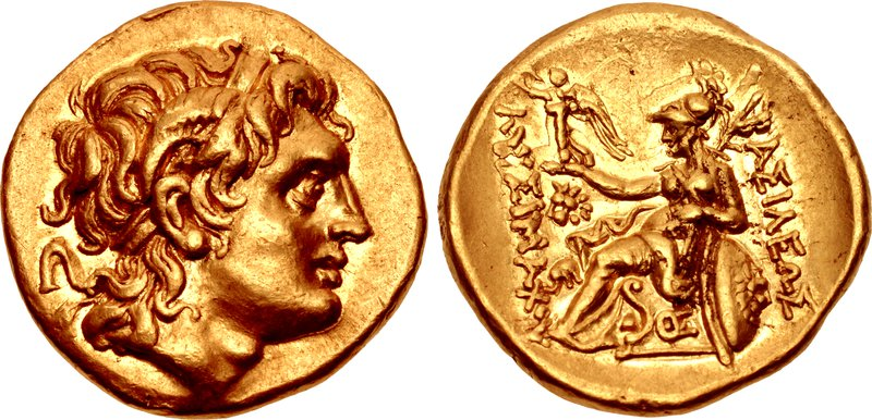 Lysimacheia mint. Struck circa 281-280 BC. Diademed head of the deified Alexander right, with horn of Ammon / BAΣIΛEΩΣ ΛYΣIMAXOY, Athena Nikephoros seated left, left arm resting on shield, transverse spear in background; to inner left, head of lion left above elephant standing right; ΘE monogram on throne.